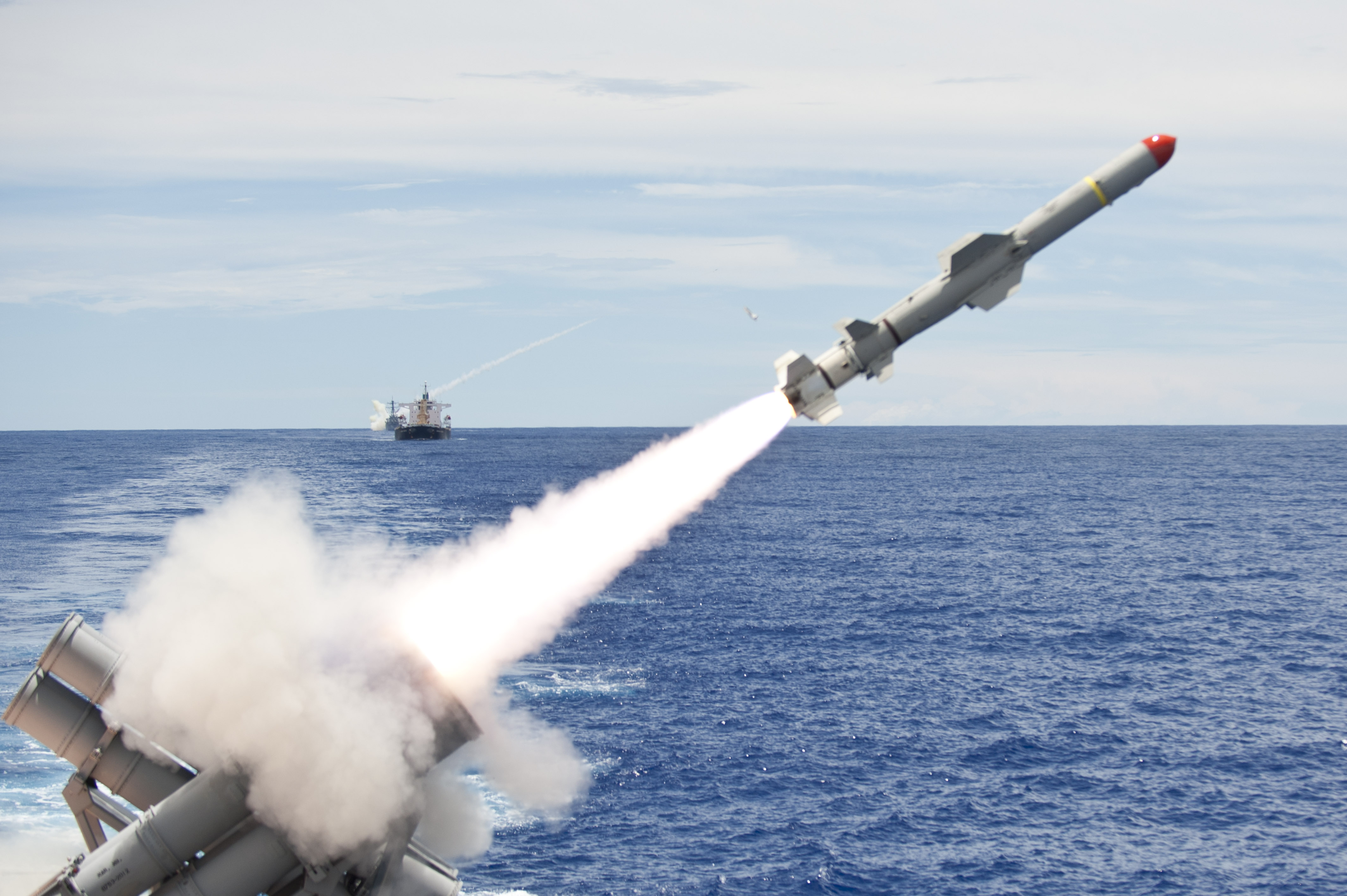 PACIFIC OCEAN (Sept. 12, 2012) The forward deployed Ticonderoga-class guided-missile cruiser USS Cowpens (CG 63) launches a Harpoon missile from the aft missile deck. Cowpens is participating in a live-fire exercise as part of Valiant Shield 2012. The live-fire event sank the ex-USS Coronado (AGF-11). (U.S. Navy photo by Mass Communication Specialist 3rd Class Paul Kelly/Released) 120912-N-TX154-175 Join the conversation navylive.dodlive.mil